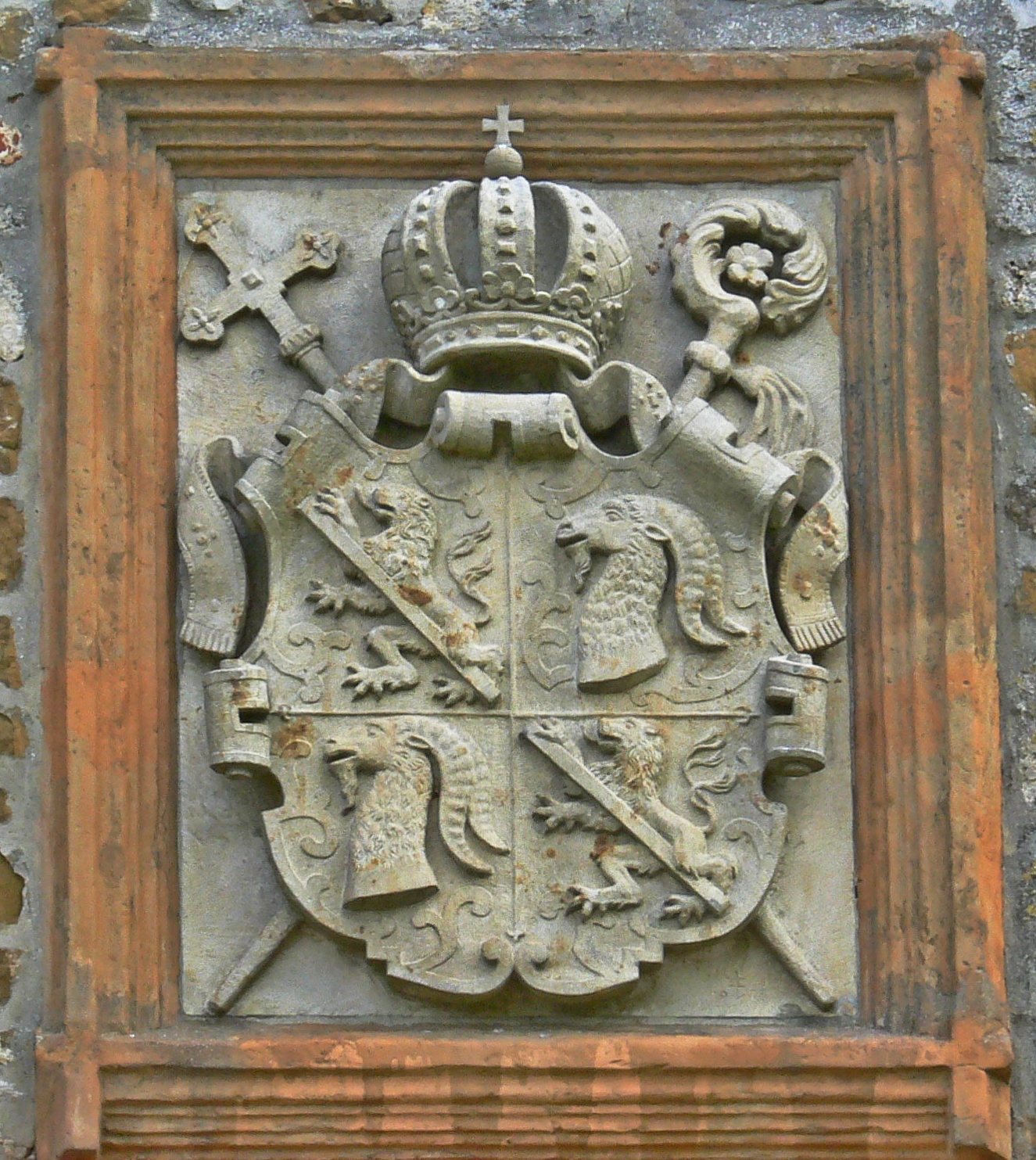 views of Scheßlitz near Bamberg, Germany